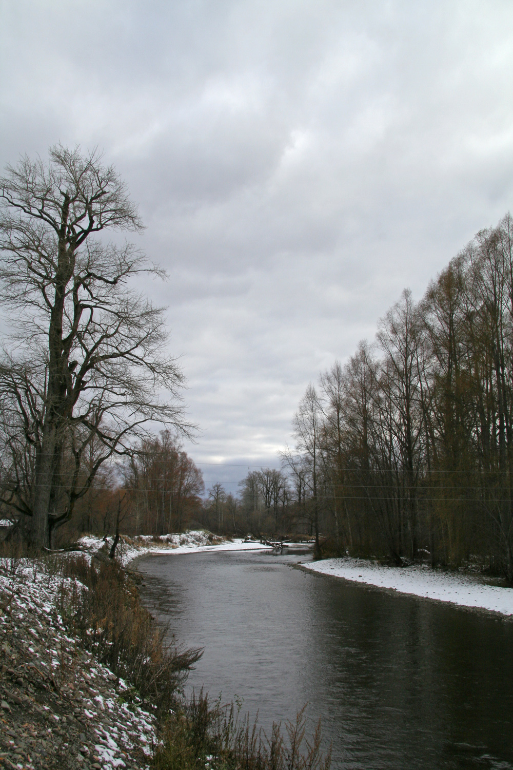 Tym' river.